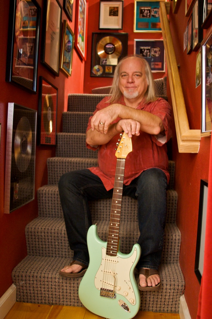 Ed Stasium